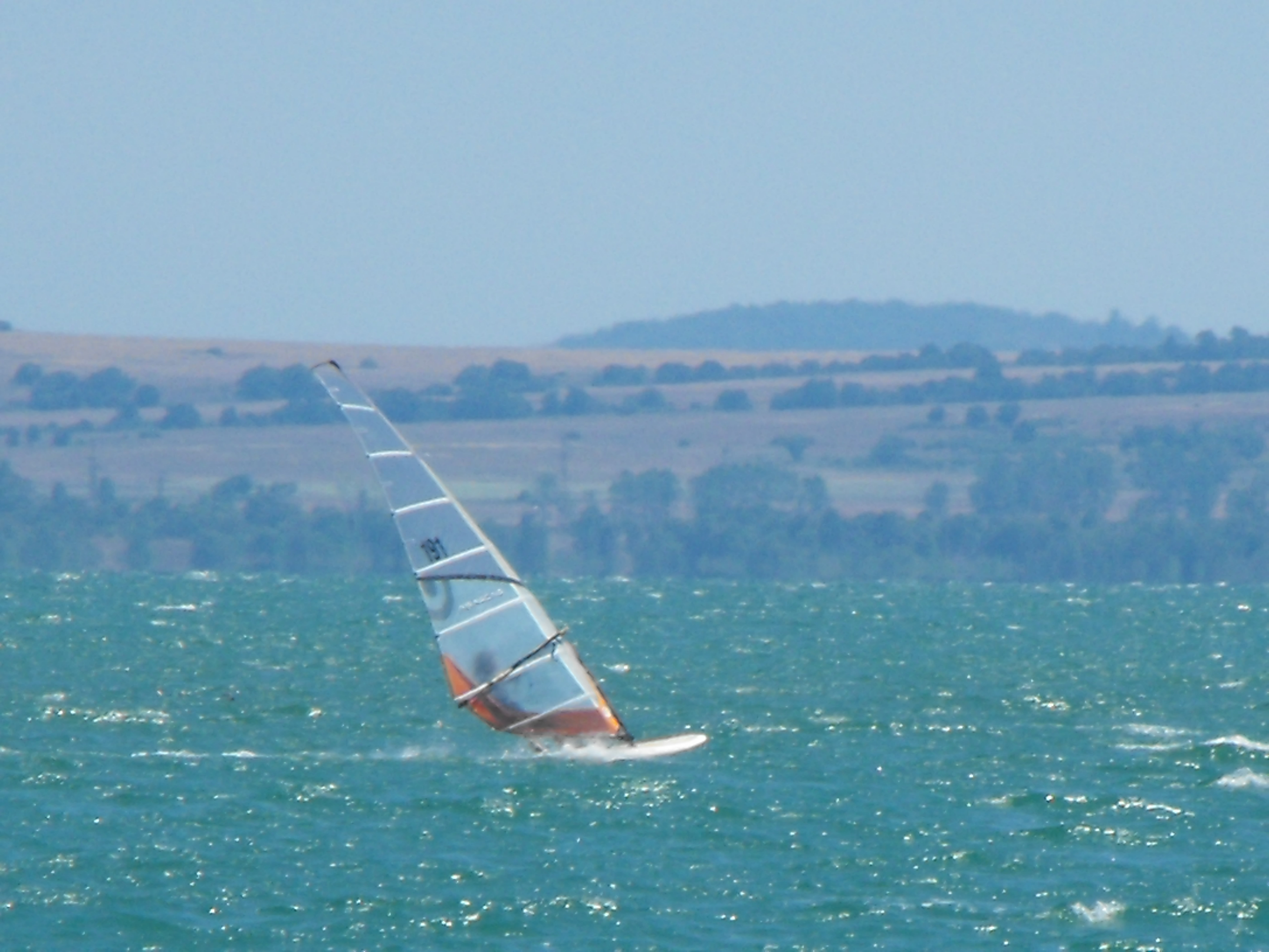 Windsurf in Bay of Burgas.